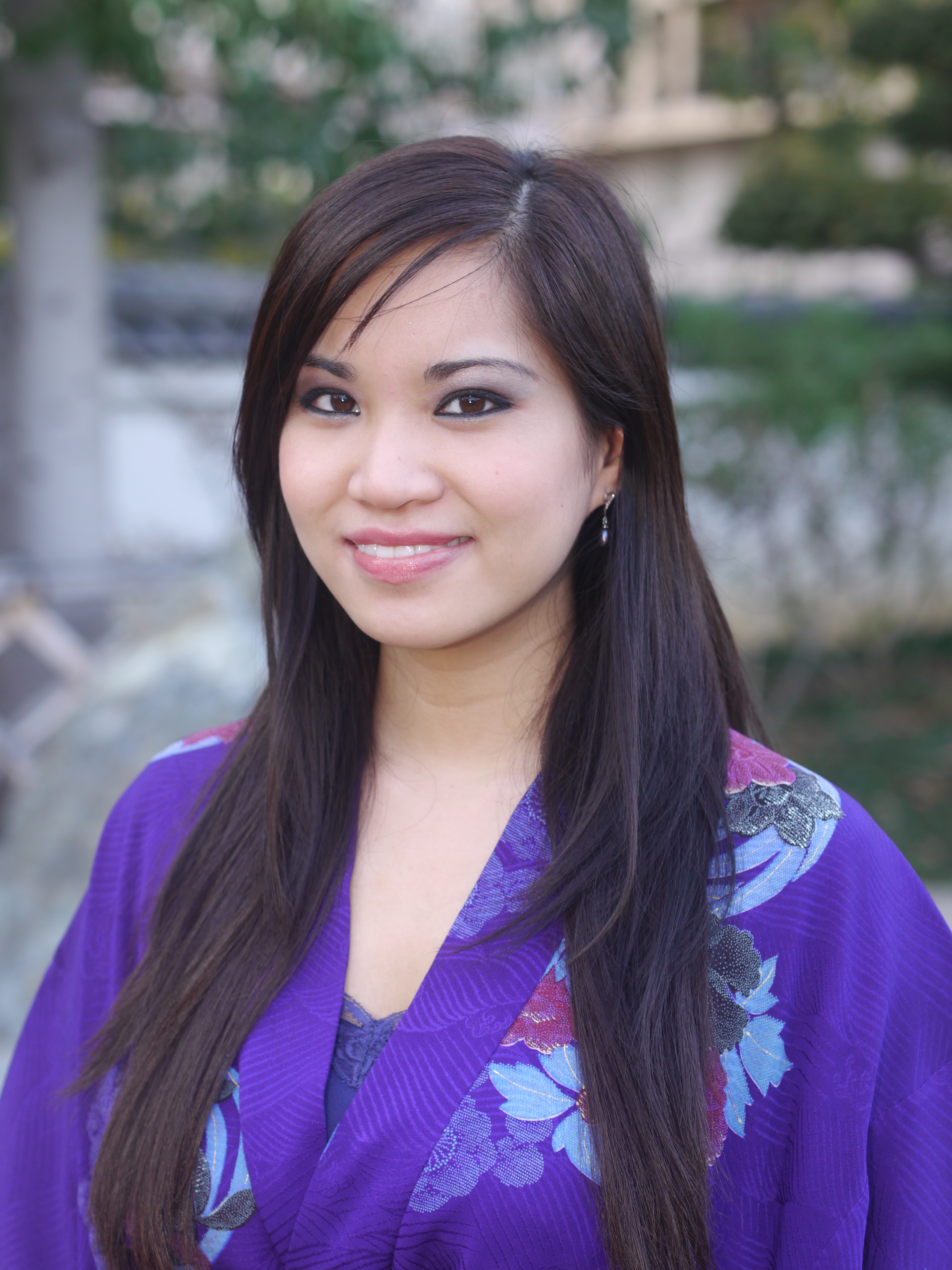 Monaco Anime Game Show Festival; 2013